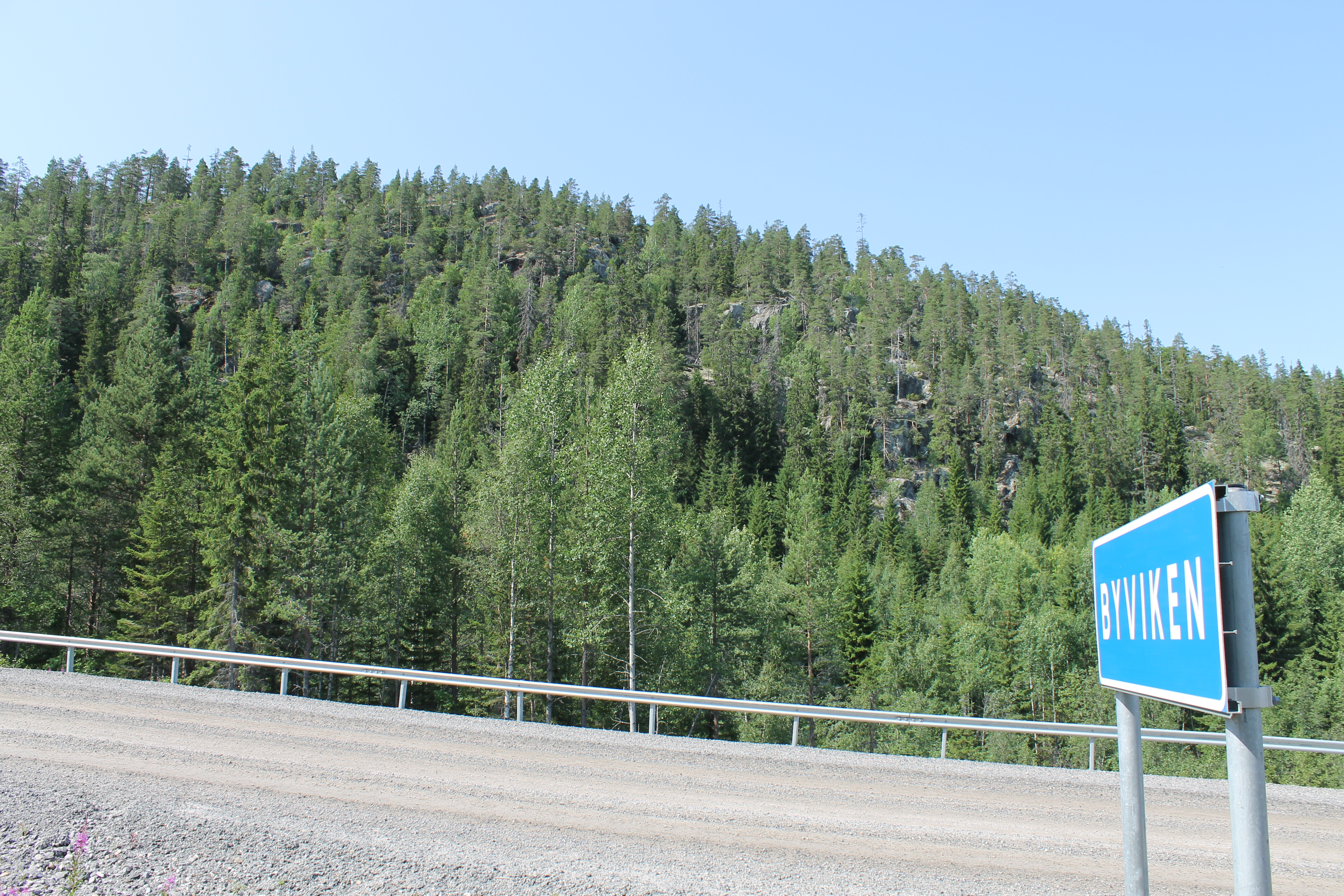 Tjurviksberget, Byviken, Örnsköldsviks kommun